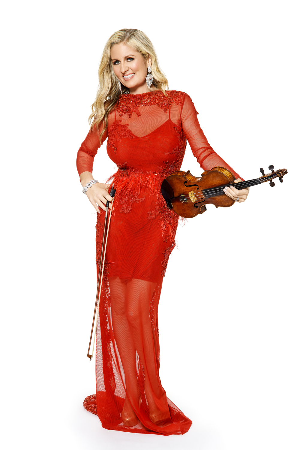 Award-winning Canadian violinist and vocalist Rosemary Siemens